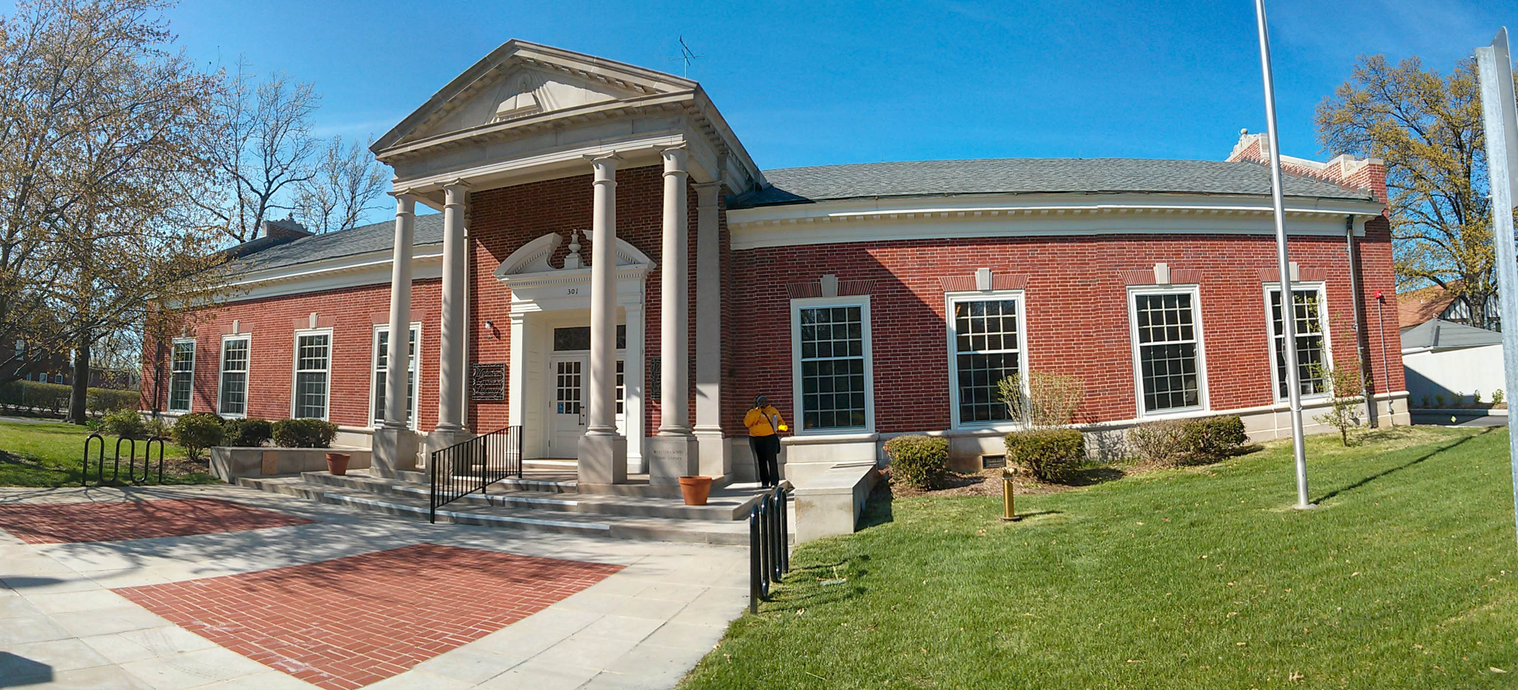 Webster Groves Publiic Library Panoramic